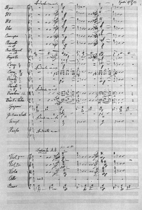 Antonín Dvořák - Armida - score of the overture